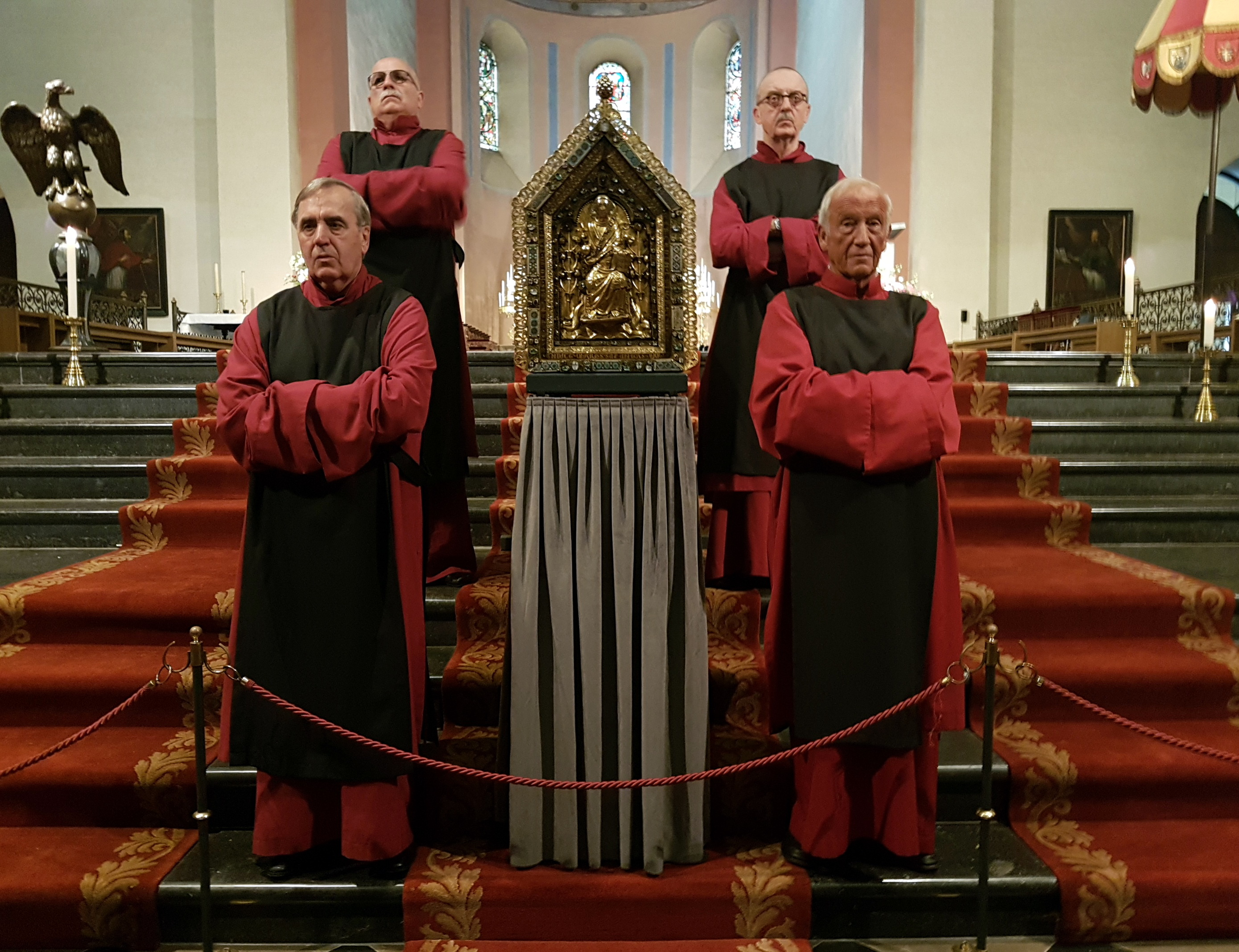 Display of the reliquary chest of Saint Servatius on the choir steps of the Basilica of Saint Servatius in Maastricht, Netherlands. The 12th-century shrine is exhibited here from morning until evening during the ten days of the 2018 Heiligdomsvaart ("Relics Pilgrimage"). It is constantly escorted by 2 or 4 members of the "dragersgilde Zwarte Christus van Wyck"(Confraternity of Saint Servatius). The history of the seven-yearly Maastricht Heiligdomsvaart goes back to the Middle Ages. The first 'modern' version of this catholic pilgrimage took place in 1874. The 2018 Heiligdomsvaart was the 55th modern edition.